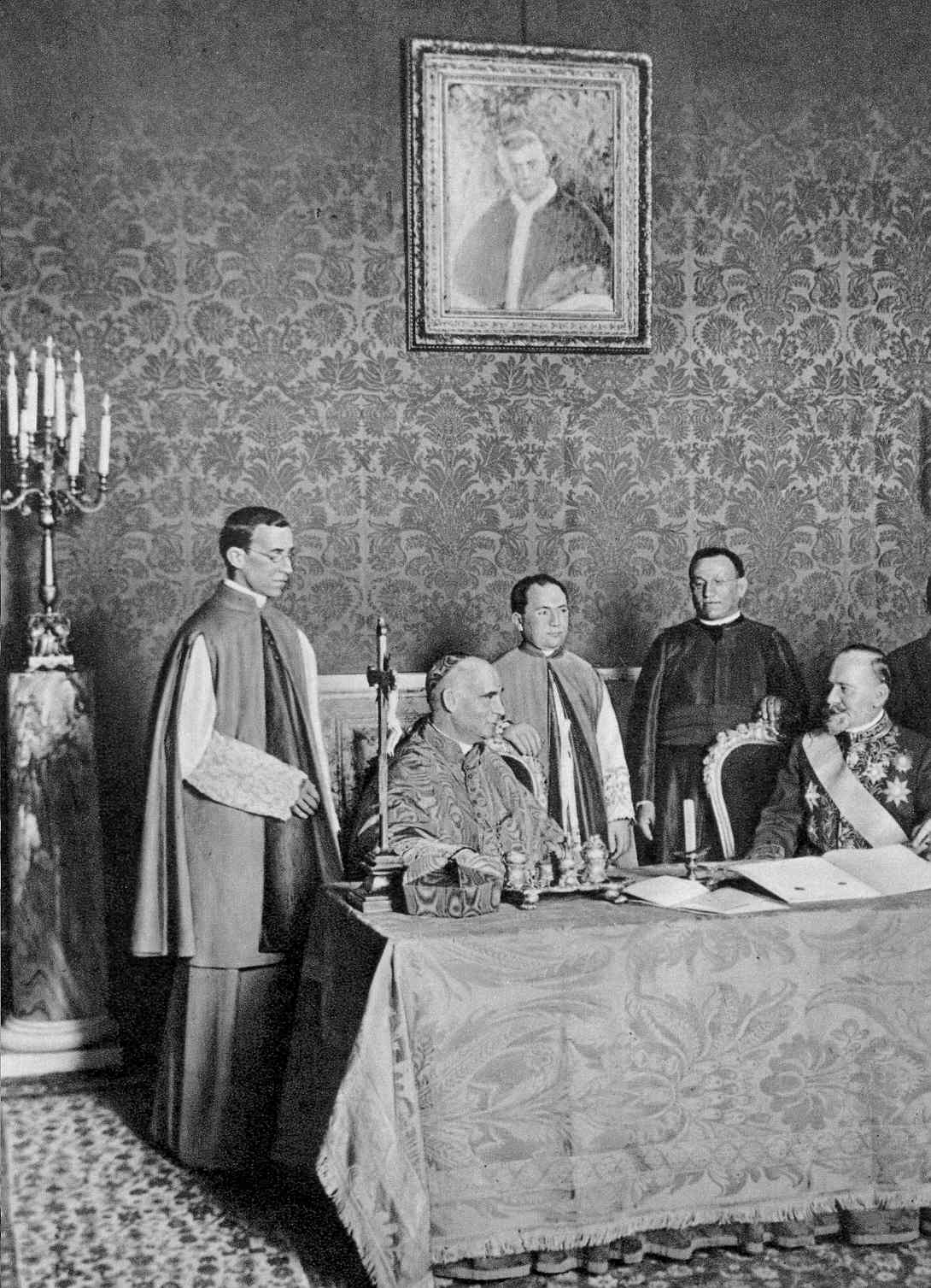 Cardinal Merry del Val and Milenko Vesnić signing the Concordat between the Holy See and Serbia on June 24, 1914 (only a few days before the outbreak of the July Crisis). Left to right: Eugenio Pacelli (at this time Secretary of the Congregation of Extraordinary Ecclesiastical Affairs and true designer of the agreement), Rafael Merry del Val (Vatican Secretary of State), Nicola Canali (his private secretary), Mons. Dionigi Cardon (1865-1928, Provost of Taggia, Liguria, Vatican's negotiator in Belgrade), Milenko Radomar Vesnić (Special Minister of Serbia). Missing on the right (cut off): Lujo Bakotić (Serbian diplomatic agent). The wall portrait shows Pope Pius X who died a few month later.